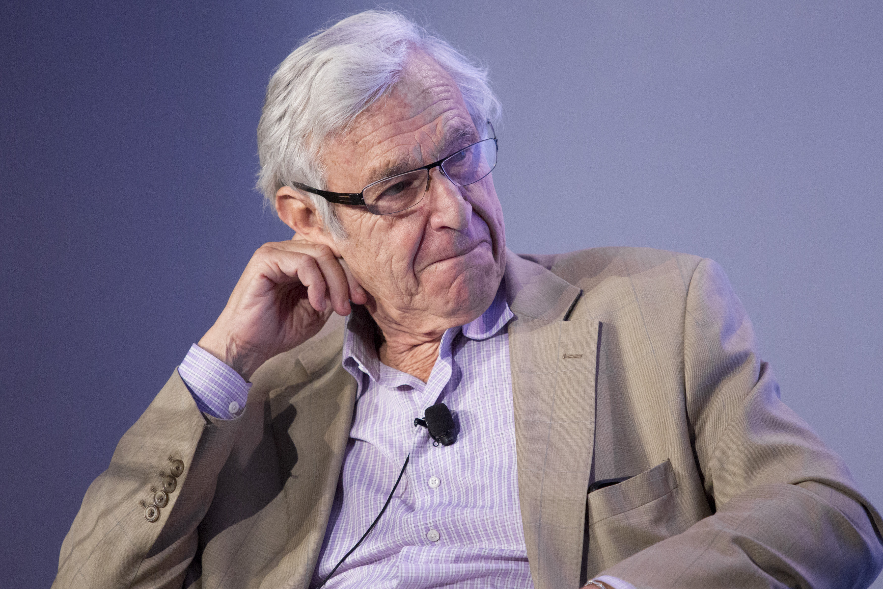 Alan Patricof, Managing Director at Greycroft Partners, Jeanne Pinder, Founder and CEO of ClearHealtCosts, Rachel Winokur, Head of Business Development at Healthagen, Melissa Obara, Director of Product Management at Fallon Health, Rob Graybill, VP at Smartshopper, Vitals and Steven Halper SVP, Equity Research at FBR present Coupons, Rebates & Rewards: Cash Matters in a Health Care Marketplace at Internet Week HQ on Day 1 of Internet Week 2015 in New York May 18, 2015. Insider Images/Andrew Kelly (UNITED STATES)